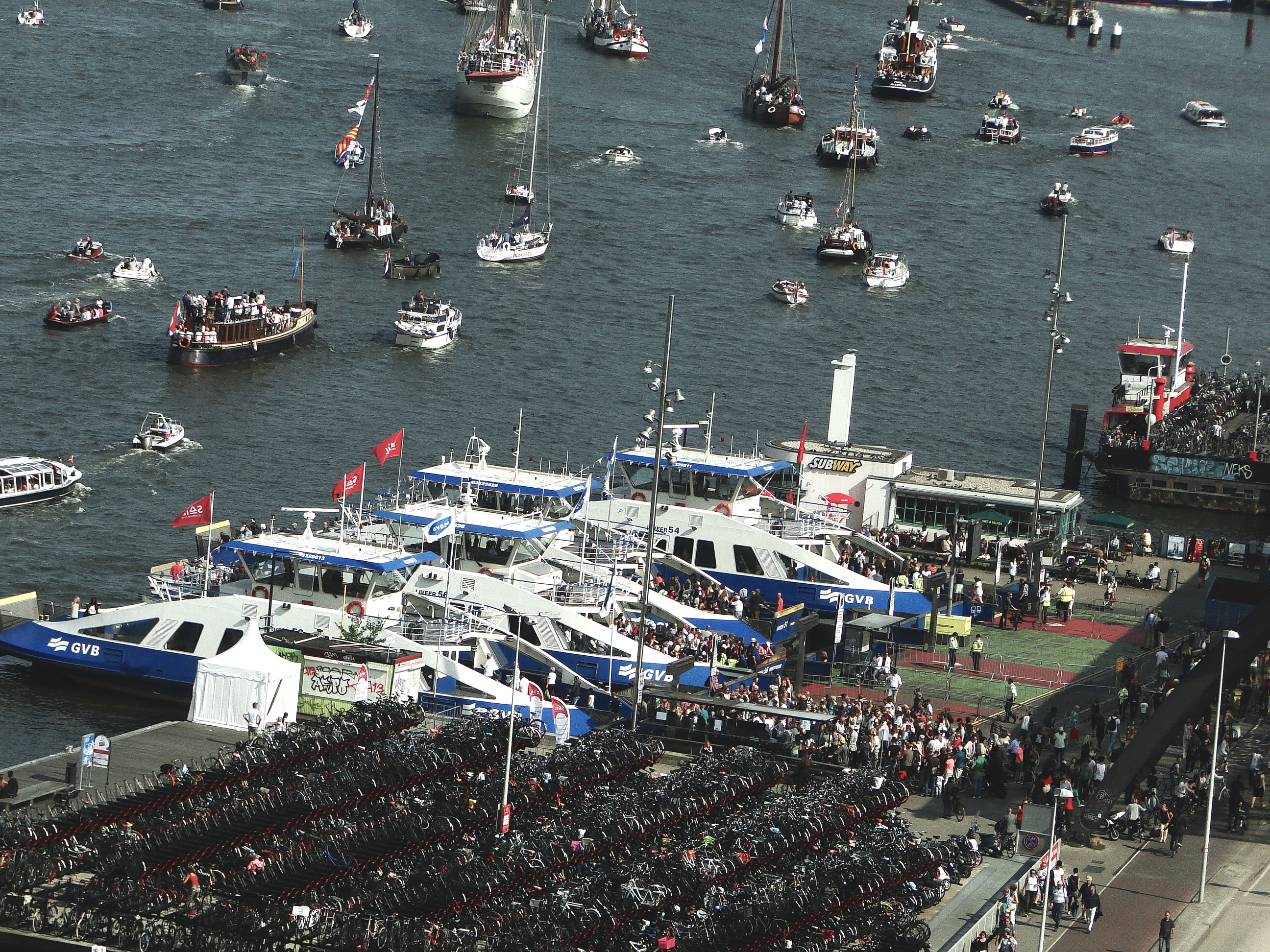 Four IJ-Ferries docking at Centraal Station in Amsterdam during sail 2015.